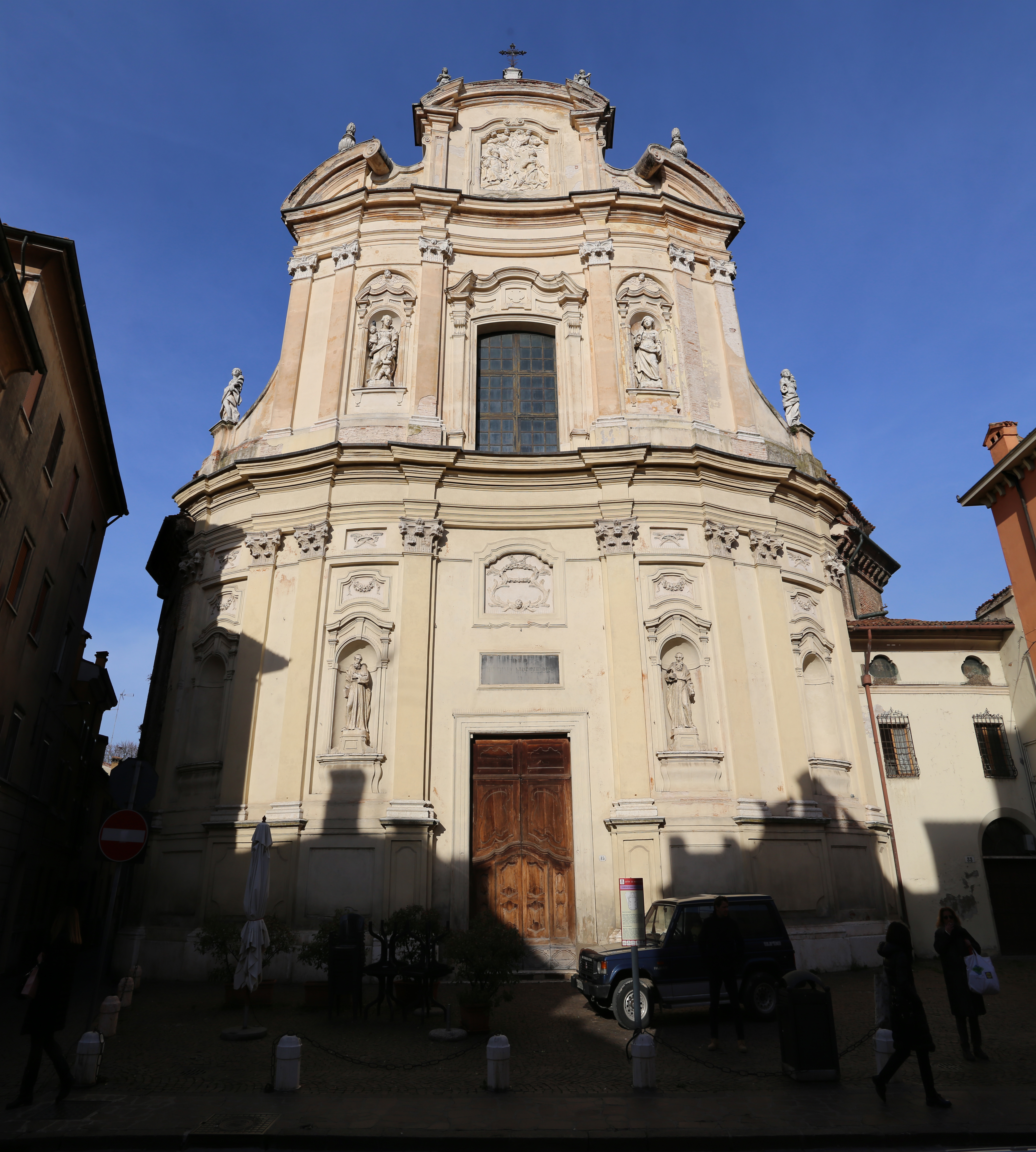 Churches in Mantua